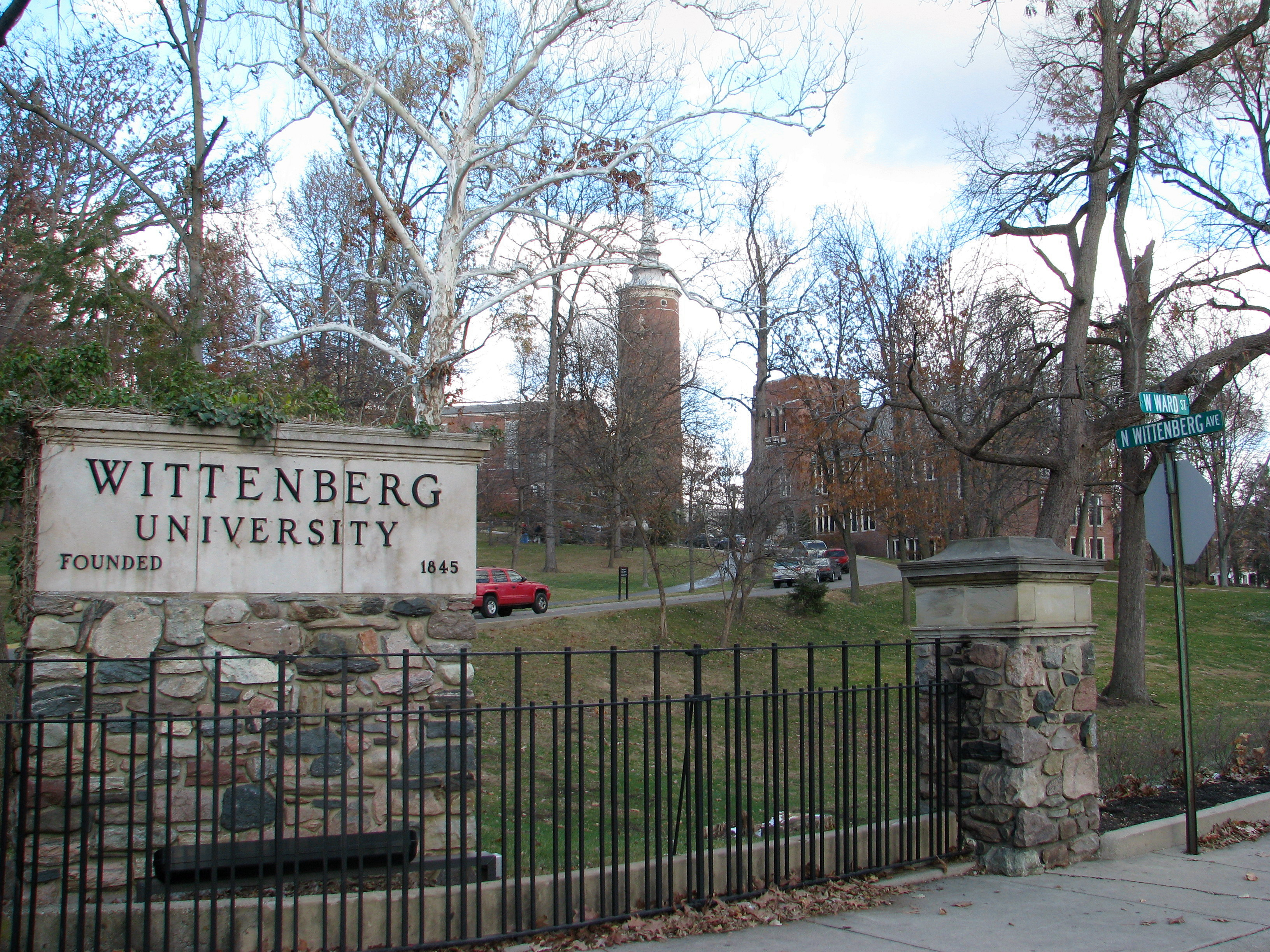 Wittenberg University, at Springield, Ohio, United States.